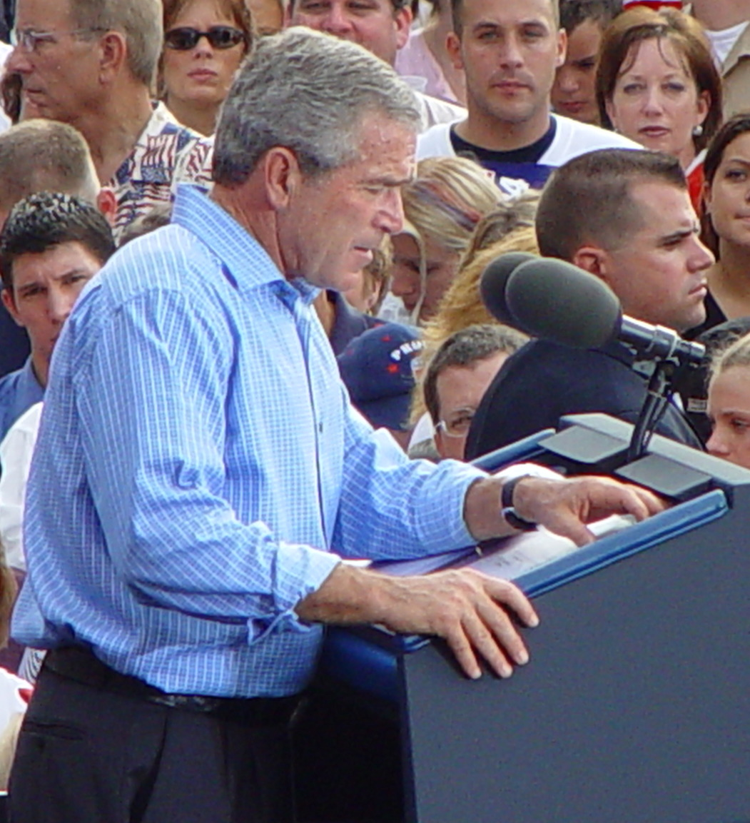 Photo taken by Jimmy "Jimbo" Wales in St. Petersburg, Florida, on October 19, 2004. Bush was speaking at a campaign rally at Al Lang Field. The camera used was a Sony Cybershot 5.0 megapixel model DSC-F707.